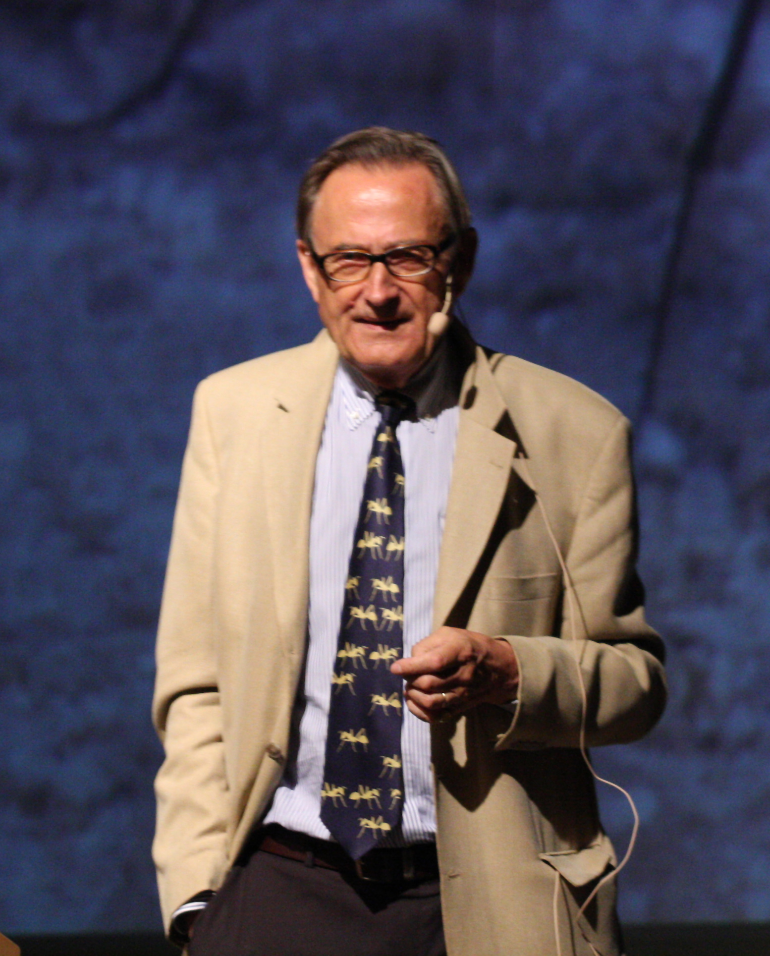 German physiologist Rüdiger Wehner as a plenary speaker at the 14th Behavioral Ecology Congress in Lund, Sweden.